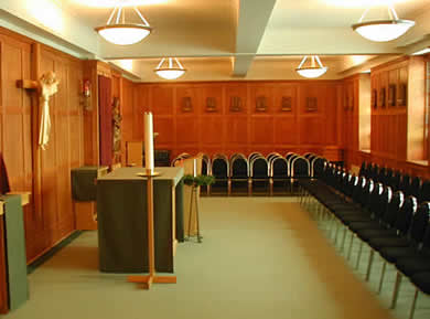 Chapel, Yeo Hall, Royal Military College of Canada